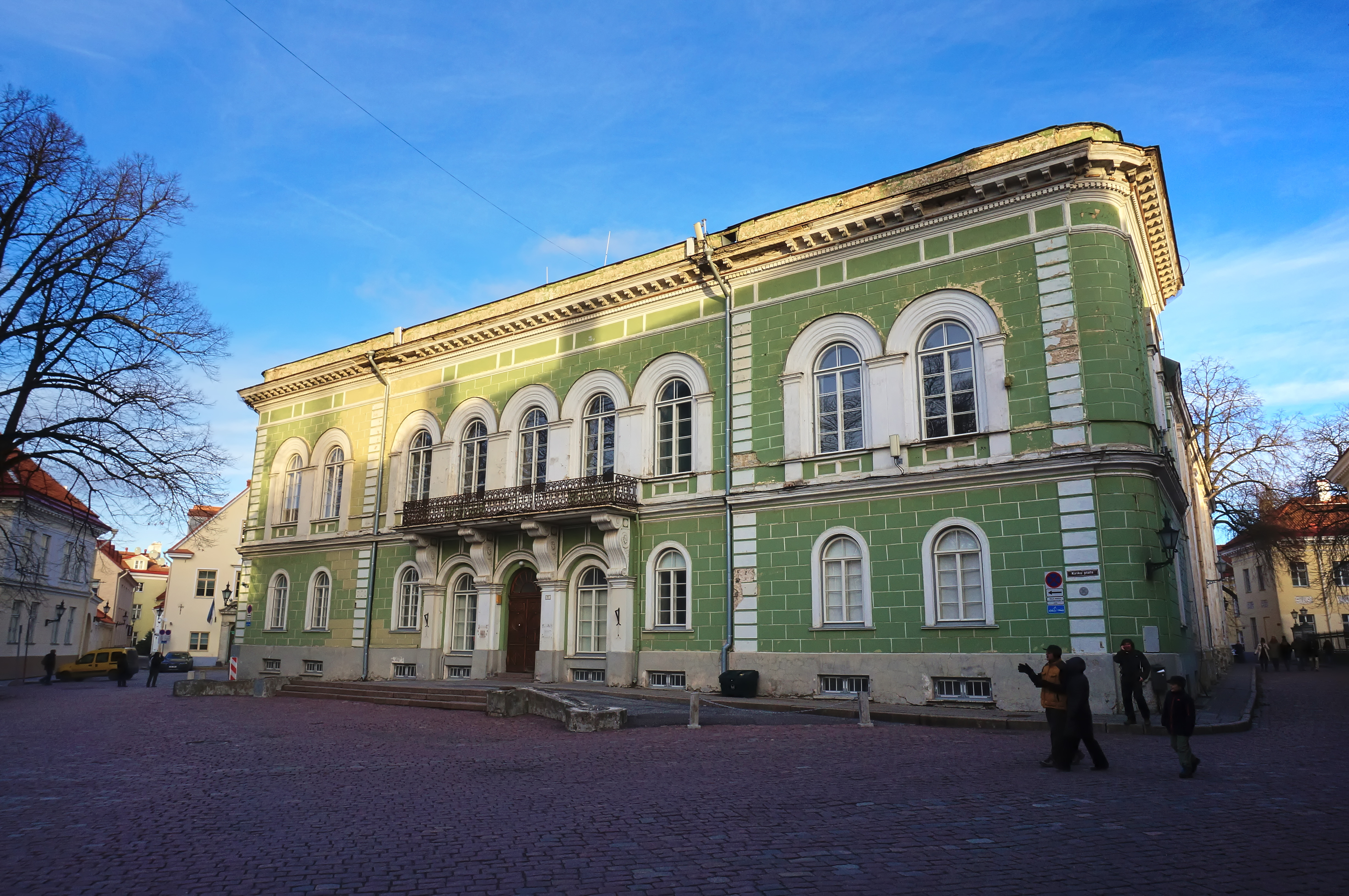 House of the Knighthood, Tallinn